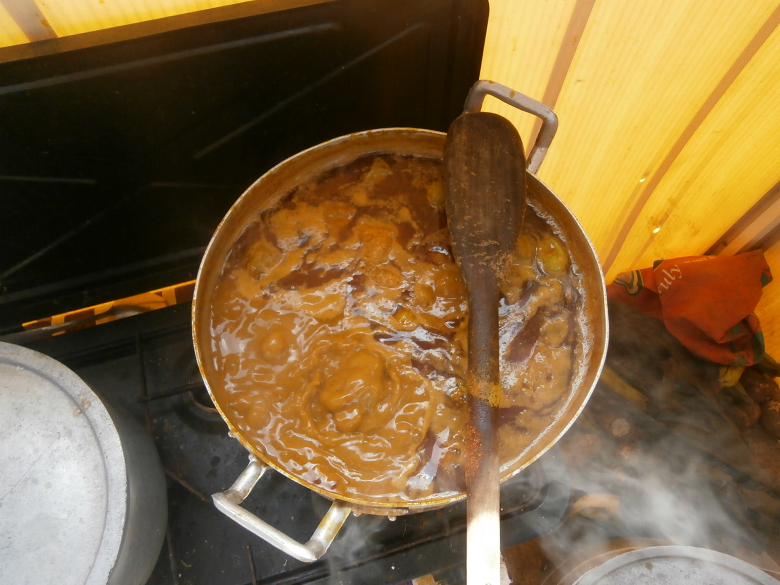 Palm nut Soup being preparing in a small chop bar in West Africa- Ghana. This soup is mainly eaten with Fufuo or Banku. Mainly the food of Akans. This is an image of food from Ghana